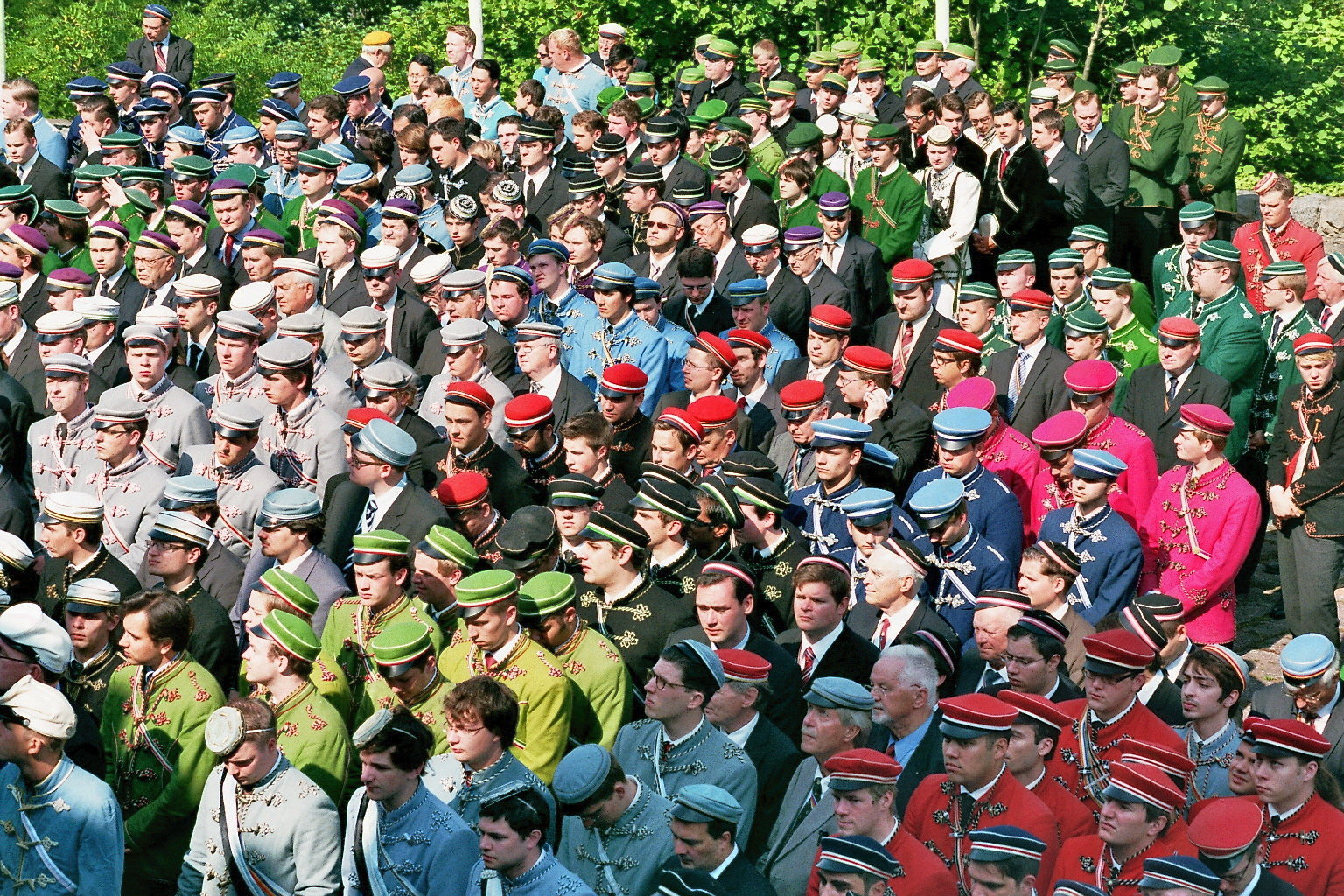 Corps students at Weinheimtagung congress 2011